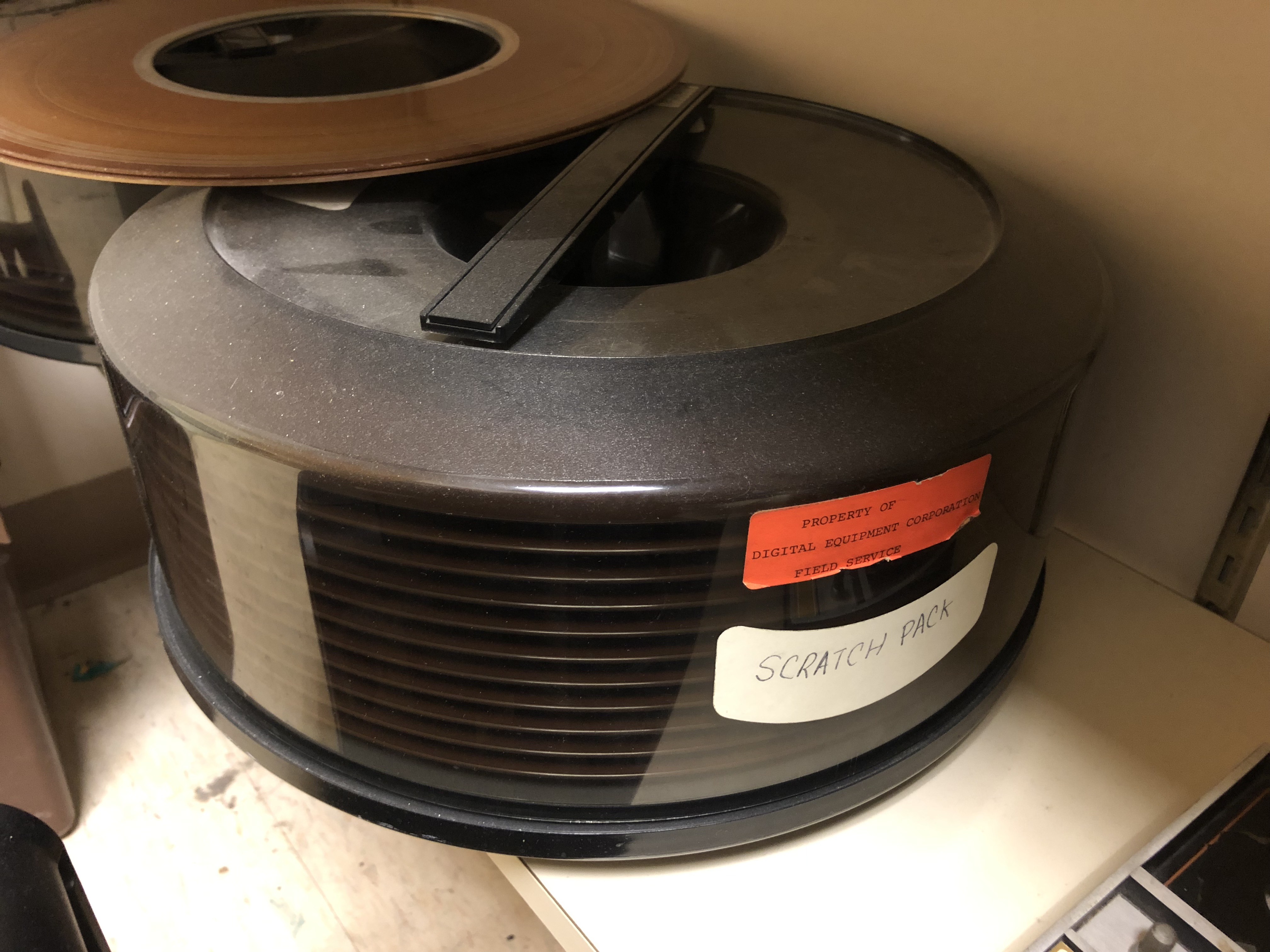 Digital Equipment Corperation Scratch Pack. Hard disk platters?